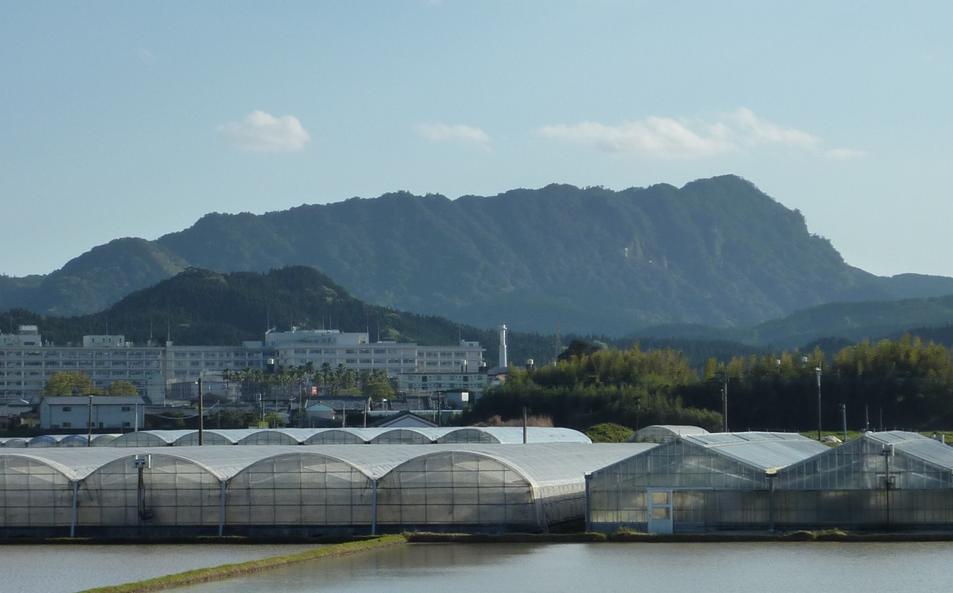 Mount Boroishiyama (Southern Miyazaki City, Japan)